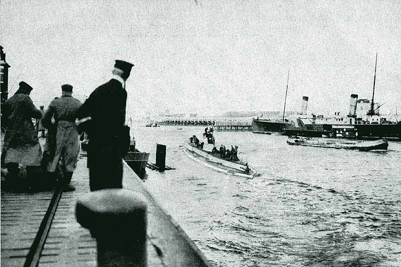 SM U 29, Commander Otto Weddigen, leaving harbour for the last cruise